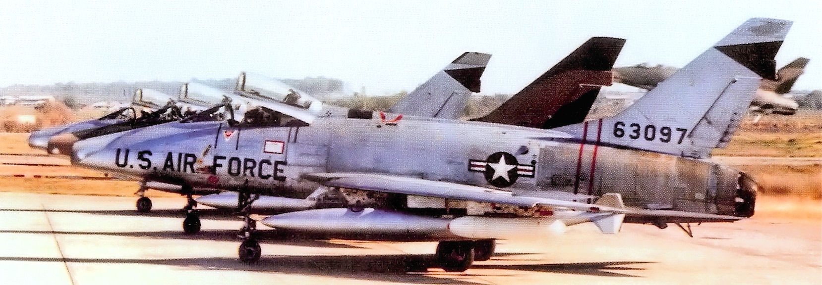 481st TFS Ton Son Nhut Air Base, South Vietnam, F-100s 1965. North American F-100F-10-NA Super Sabre 56-3907 in foreground. Aircraft was retired to MASDC Nov 7, 1979 as FE0626. Later converted to QF-100F target drone and expended.